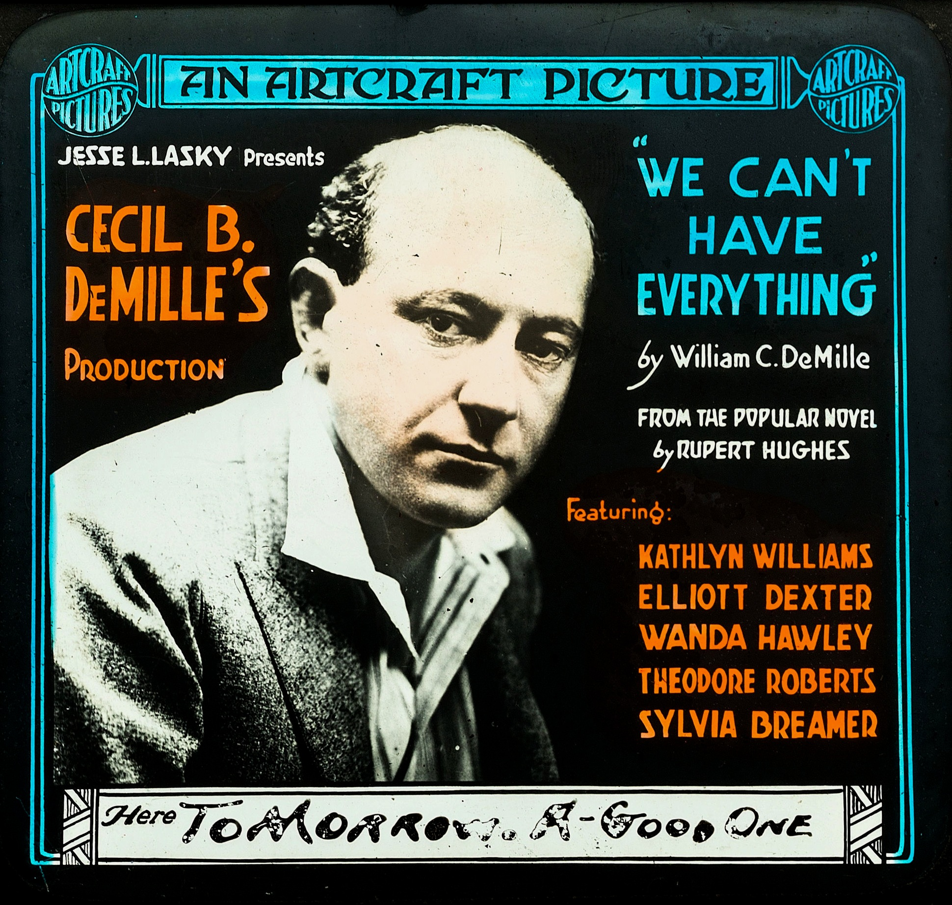 We Can't Have Everything is a 1918 American silent drama film directed by Cecil B. DeMille. This is a glass slide for the film with an image of the director.